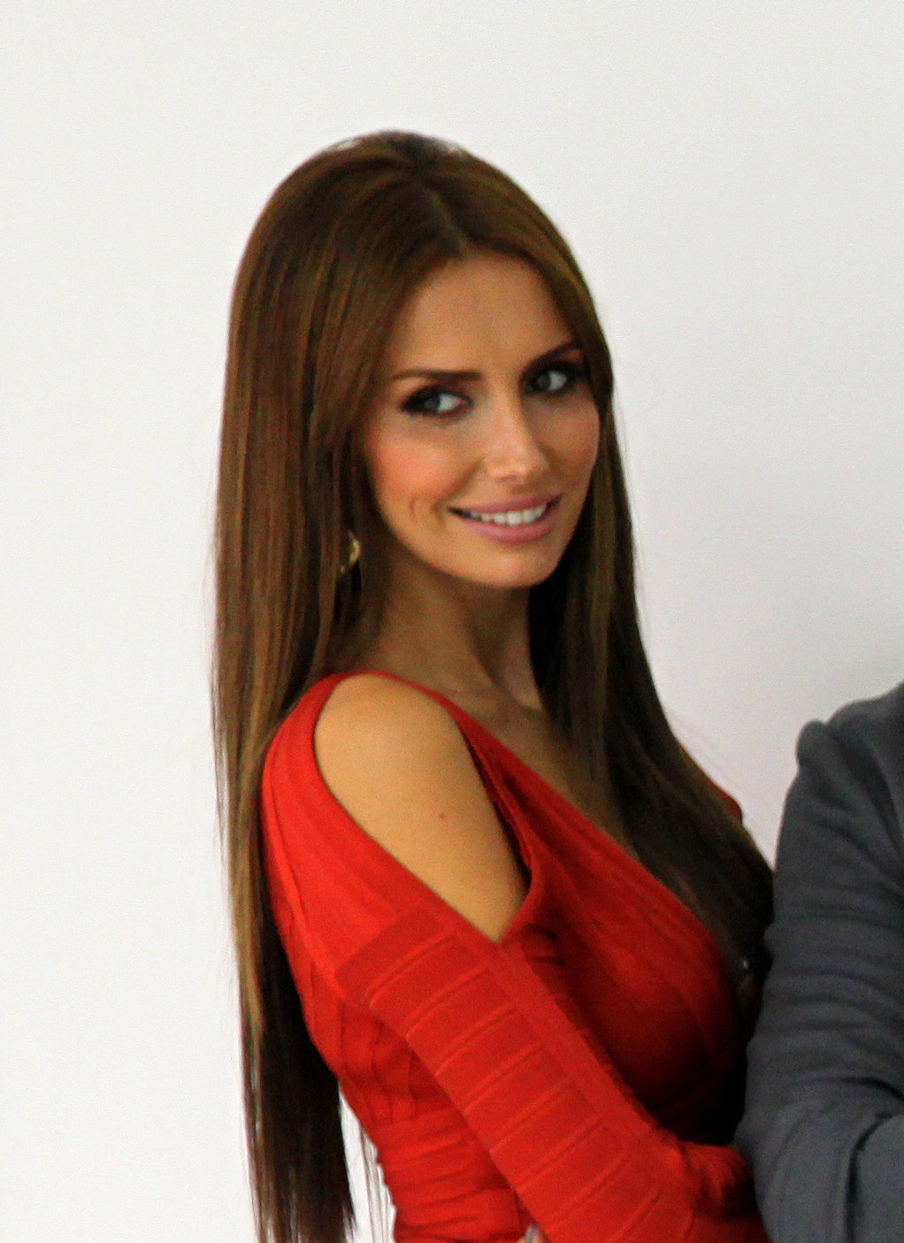 Emina Jahovic in 2013